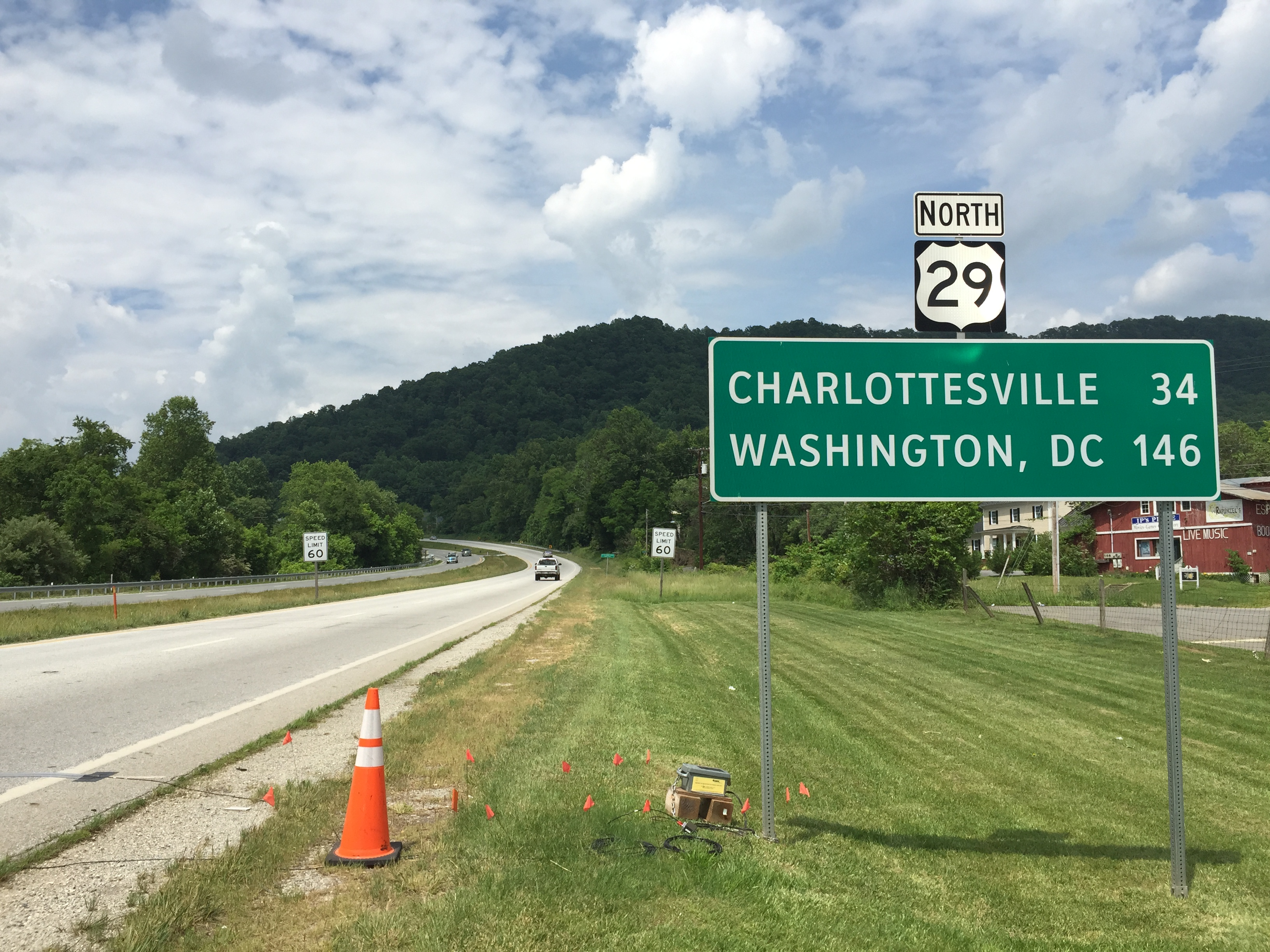 View north along U.S. Route 29 (Thomas Nelson Highway) just north of the junction with Northside Lane (U.S. Route 29 Business) in Lovingston, Nelson County, Virginia